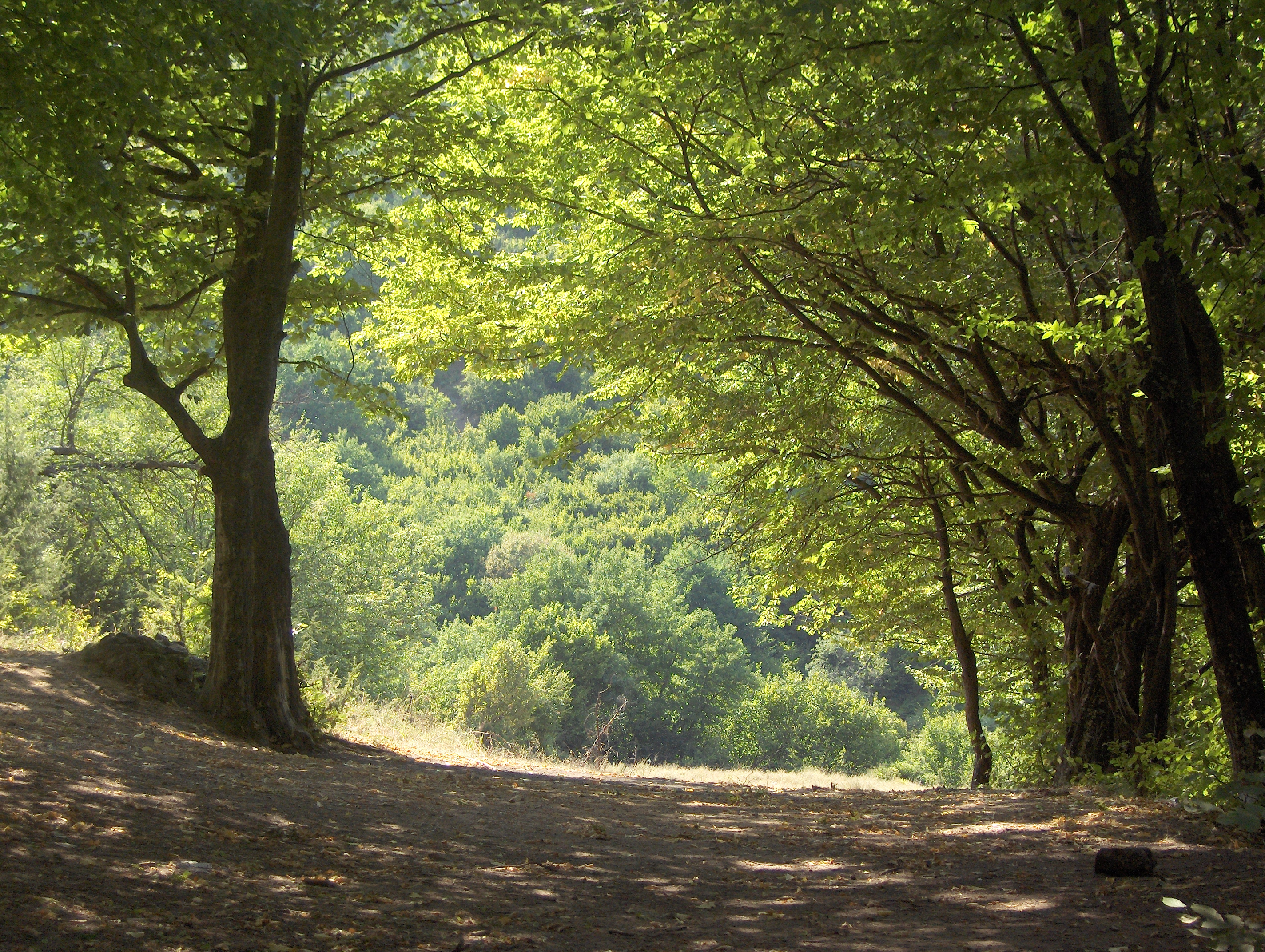 A forest in Kosovo, July 3, 2007